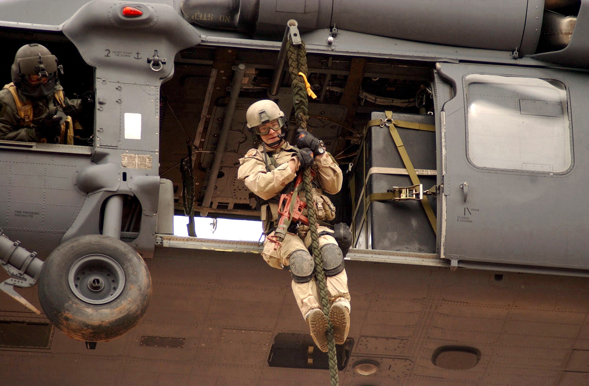 DAVIS-MONTHAN AIR FORCE BASE, Ariz. -- Senior Airman Josiah Blanton, a pararescueman, fast ropes from a HH-60G Pave Hawk. Pararescuemen are specifically trained and equipped to conduct conventional or unconventional rescue operations. Their motto "That Others May Live" reaffirms the pararescueman's commitment to saving lives and self-sacrifice.